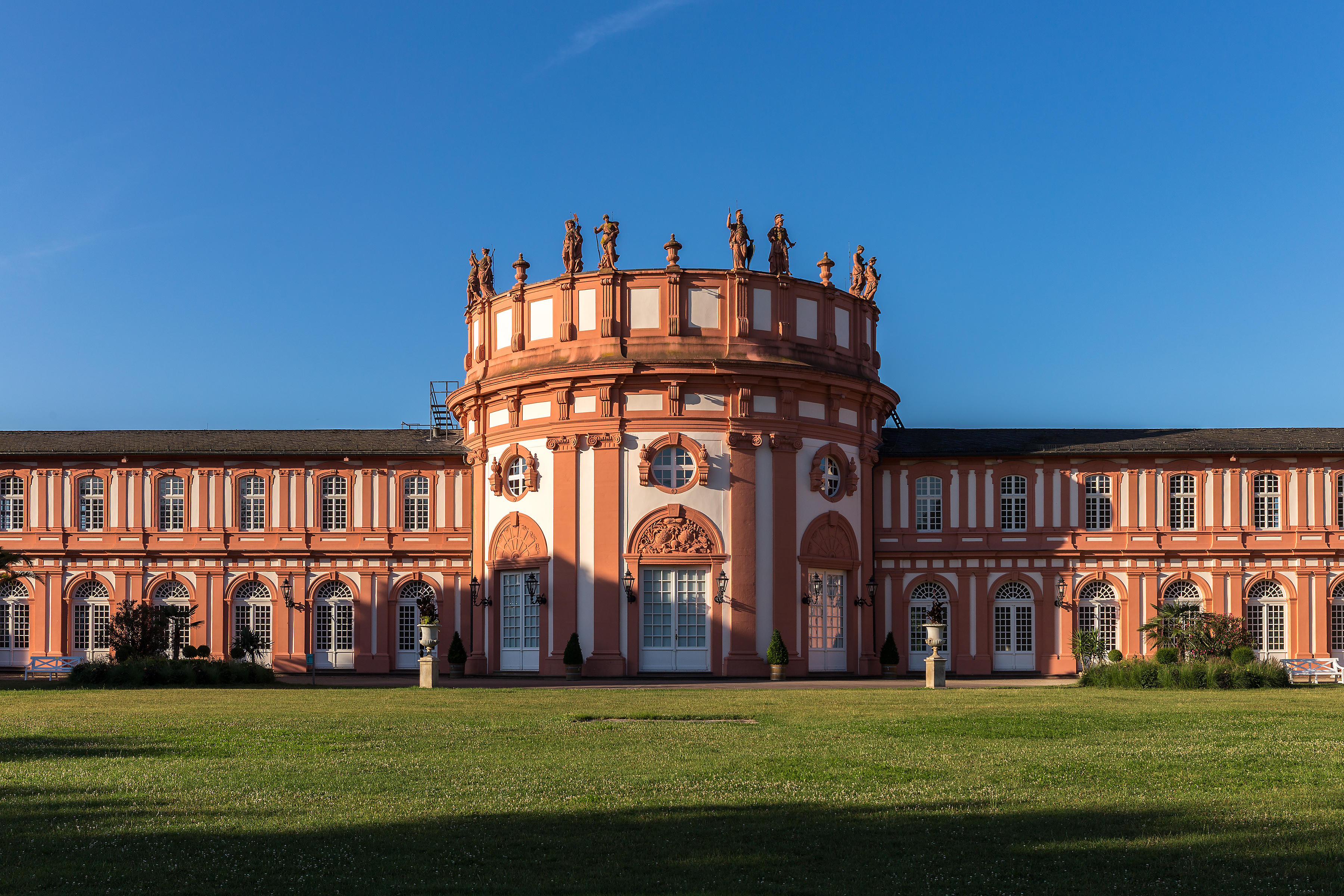 North facade of Biebrich palace.